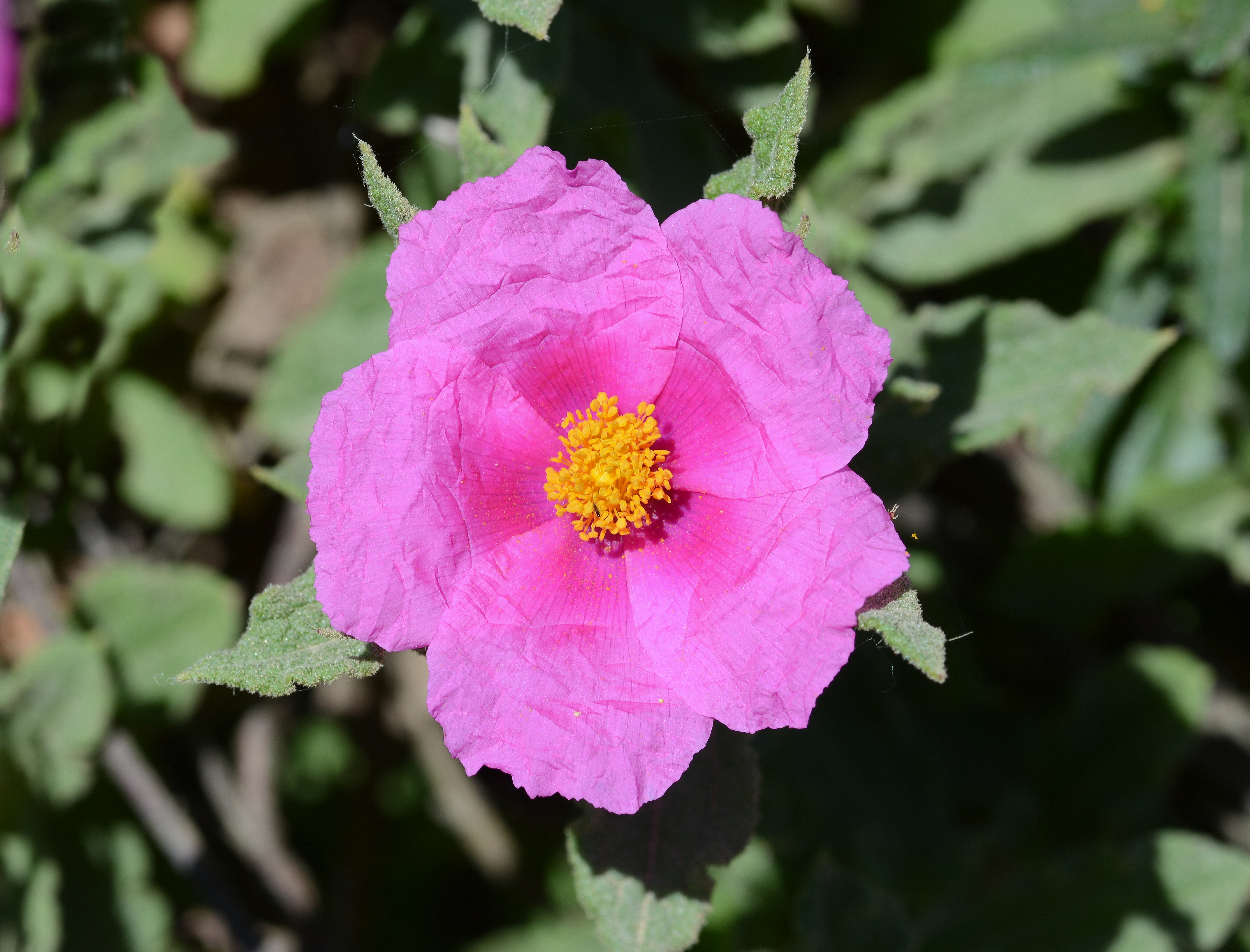 A Cistus crispus flower